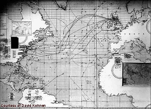 North Atlantic Plot in Washington